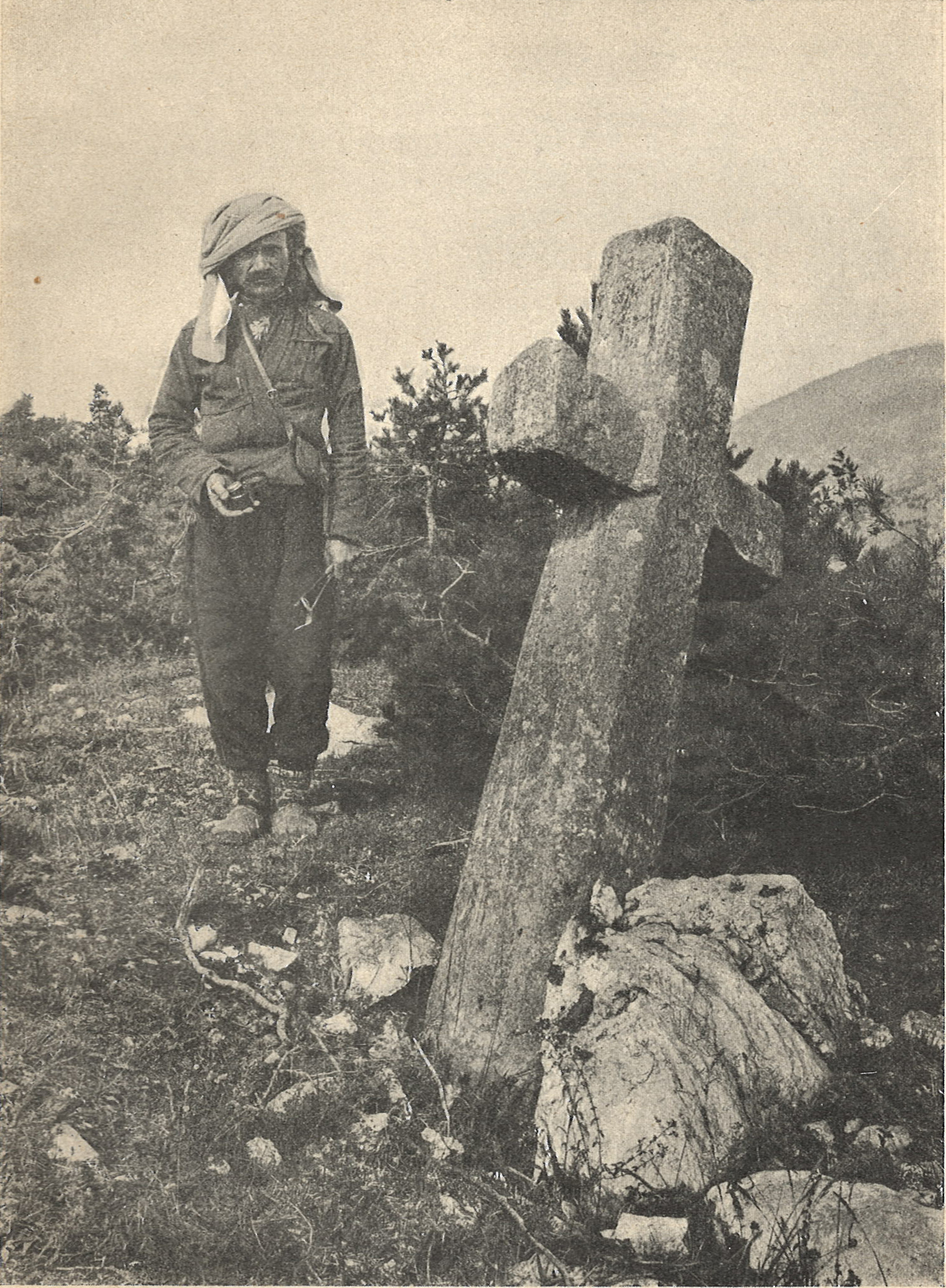 From Nicholas Marr's dairy of his travels to Shavsheti and Klarjeti (1911).